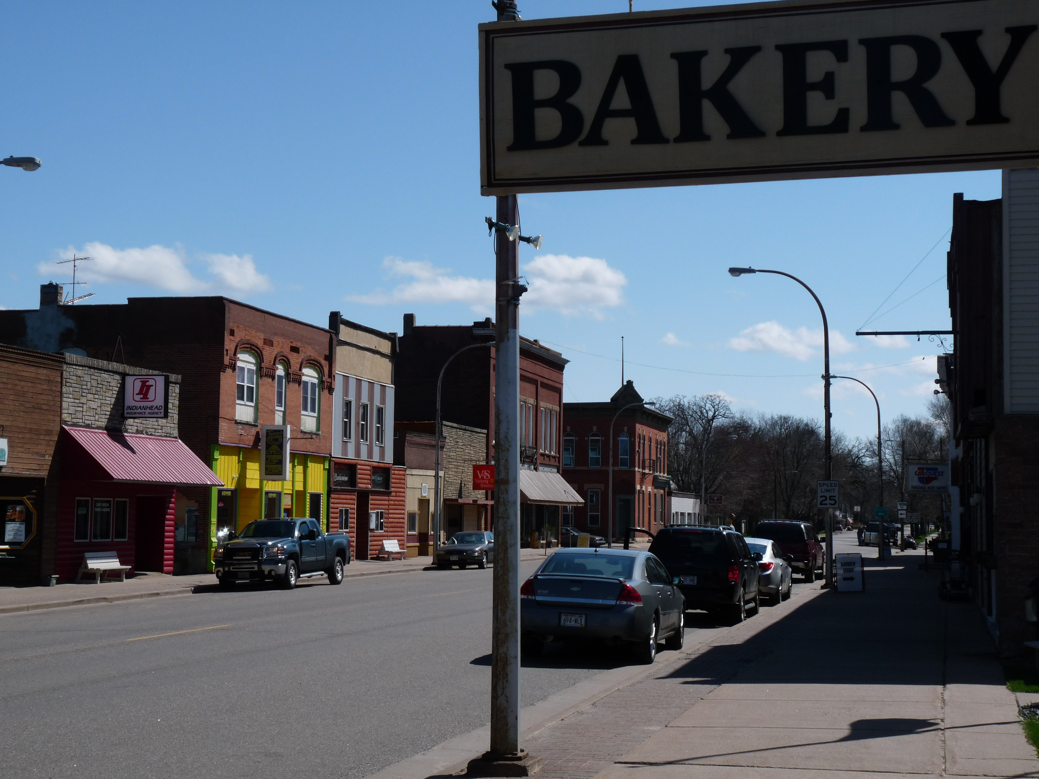 Downtown Augusta, Wisconsin, looking east toward the north side of Lincoln Street.